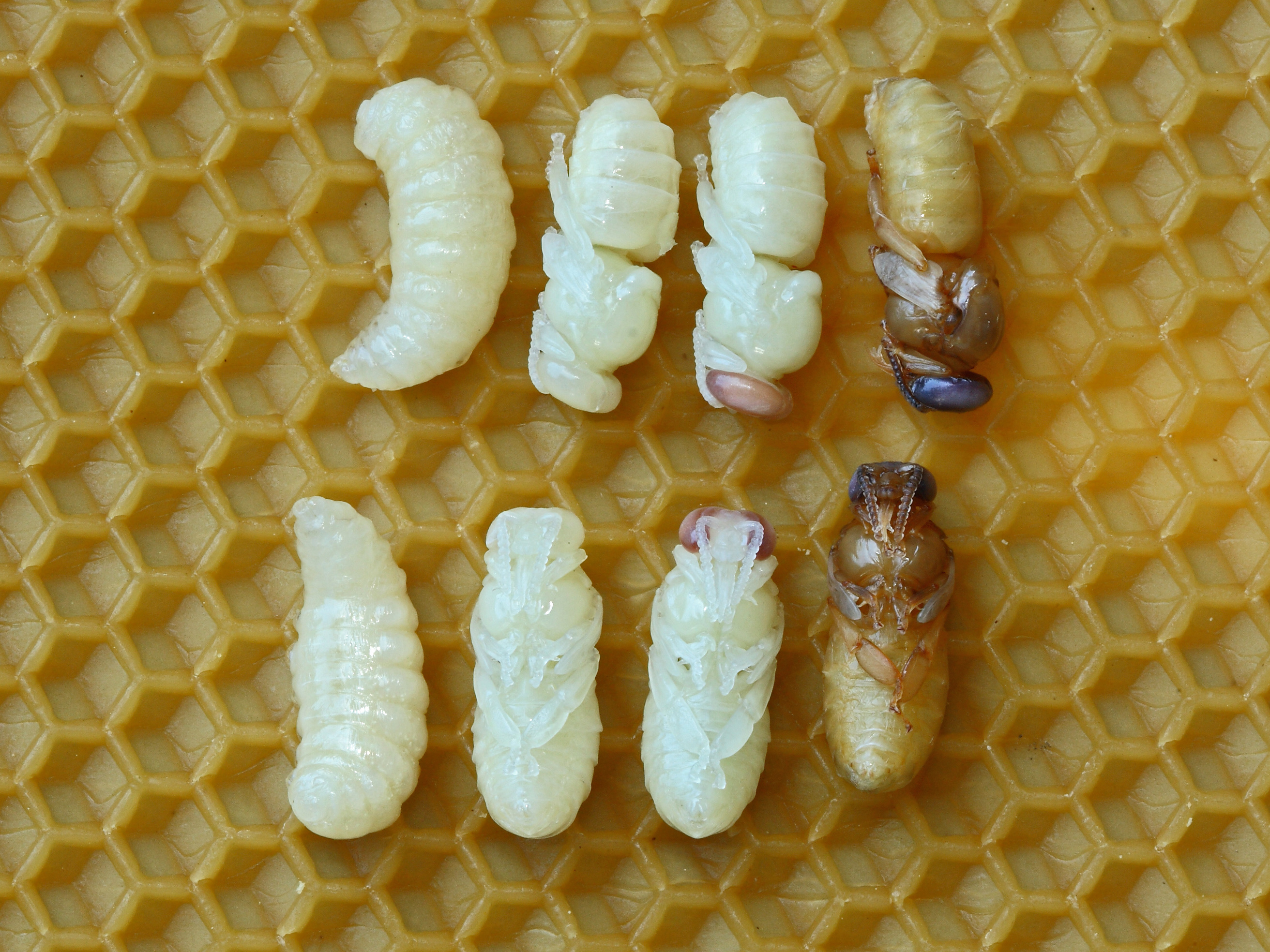 Pupae of drones (honeybee). Here we see drones in various stages of development. On the left, a stretched prepupa (age 11 to 14 days from the egg being laid). At this stage the cell is already capped. After 14 days, the prepupa has shed its skin, and the final form of the bee can be seen. At first, it is all white (second from left). Later it starts to gain colour, first with the eye, then the whole pupa. The developing bee remains as a pupa from 15 days after the egg being laid until day 24. In the background is a foundation wall of wax imprinted with cells for the workers.